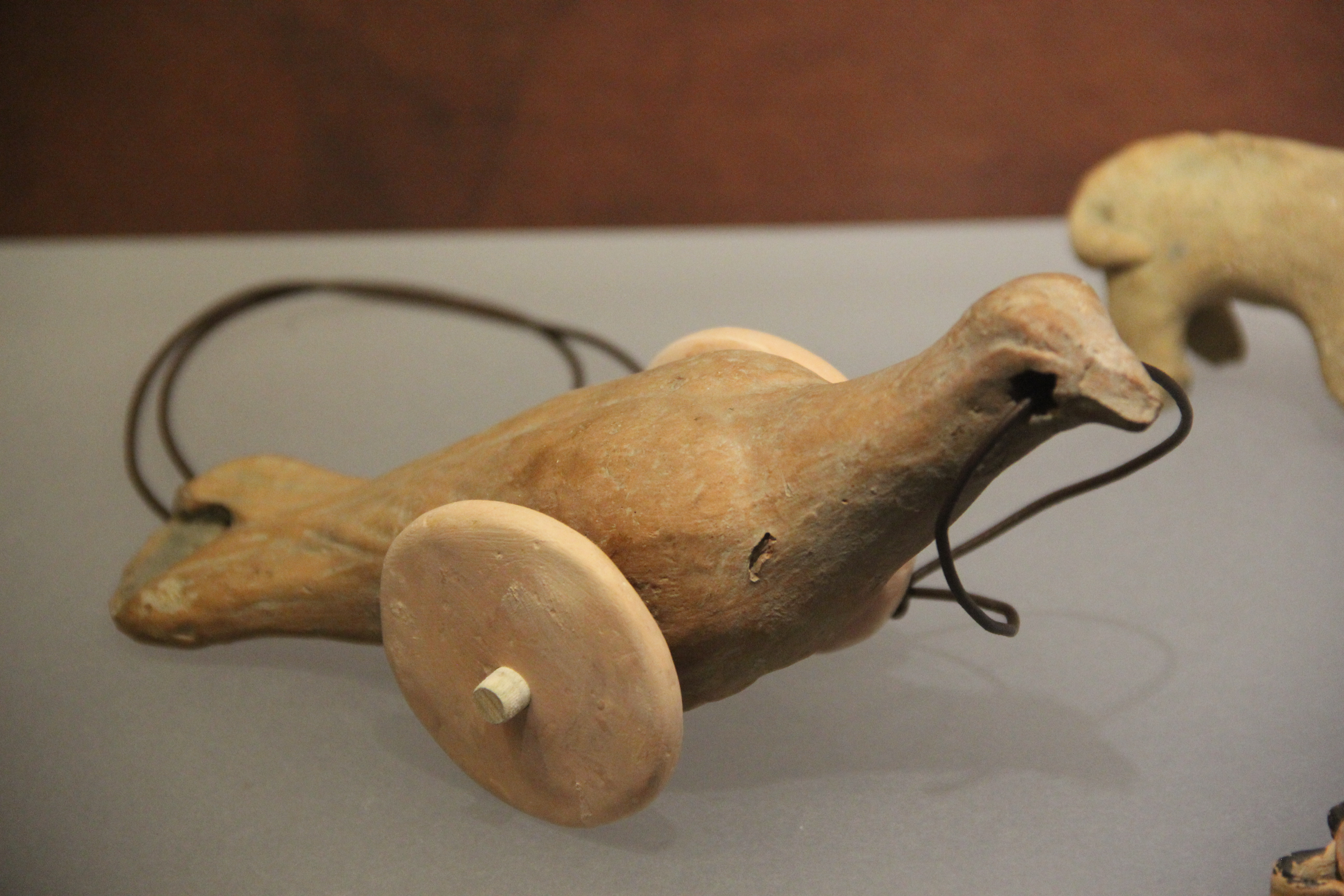 Daily Life in Greek Antiquity Gallery, Museum of Cycladic Art, Athens, Greece. Complete indexed photo collection at .